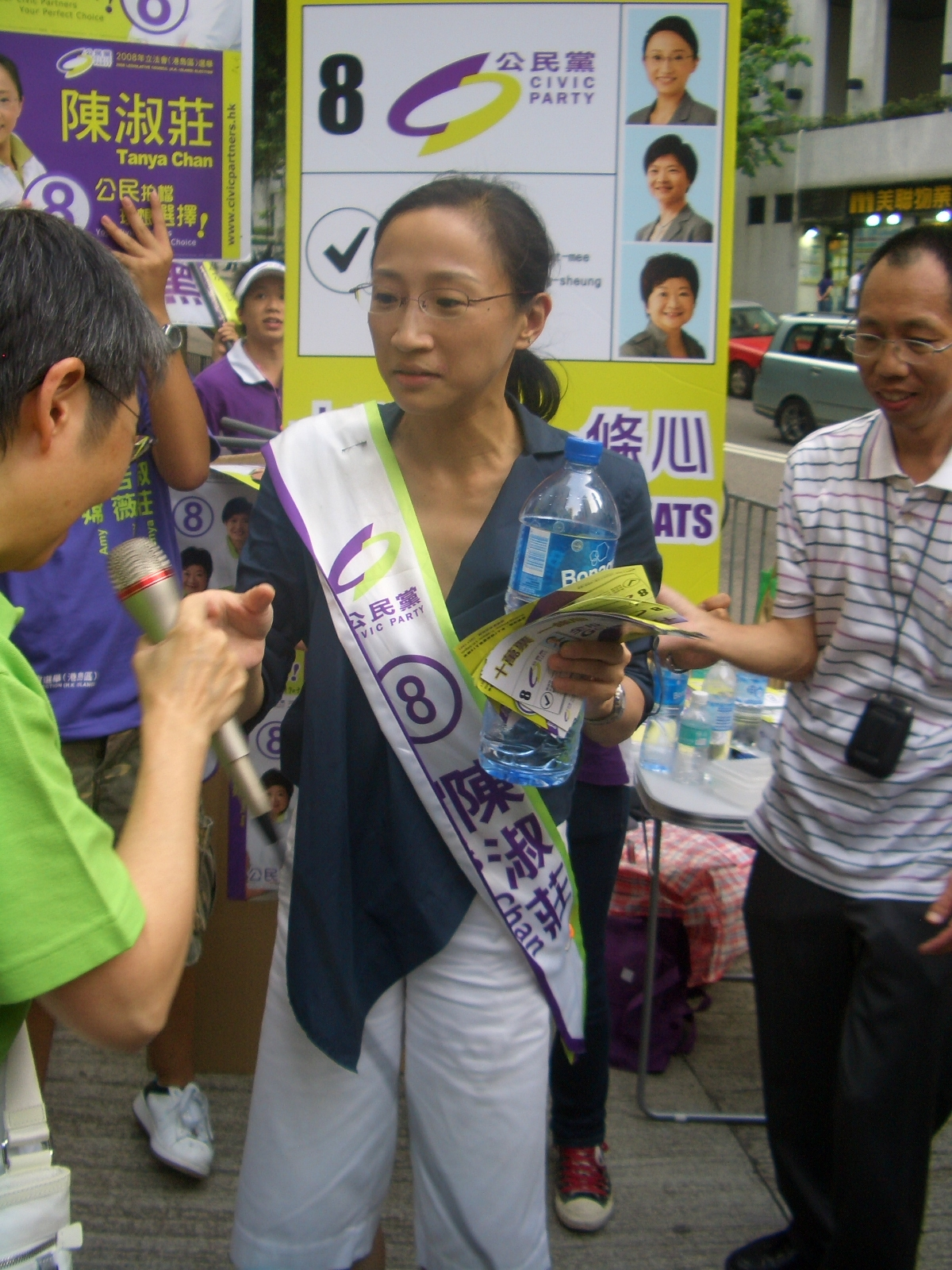 Tanya Chan on 2008-9-7 中文（香港）: 陳淑莊在2008年9月7日